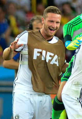 Germany wins it's 4th FIFA World Cup after beating Argentina 1-0.